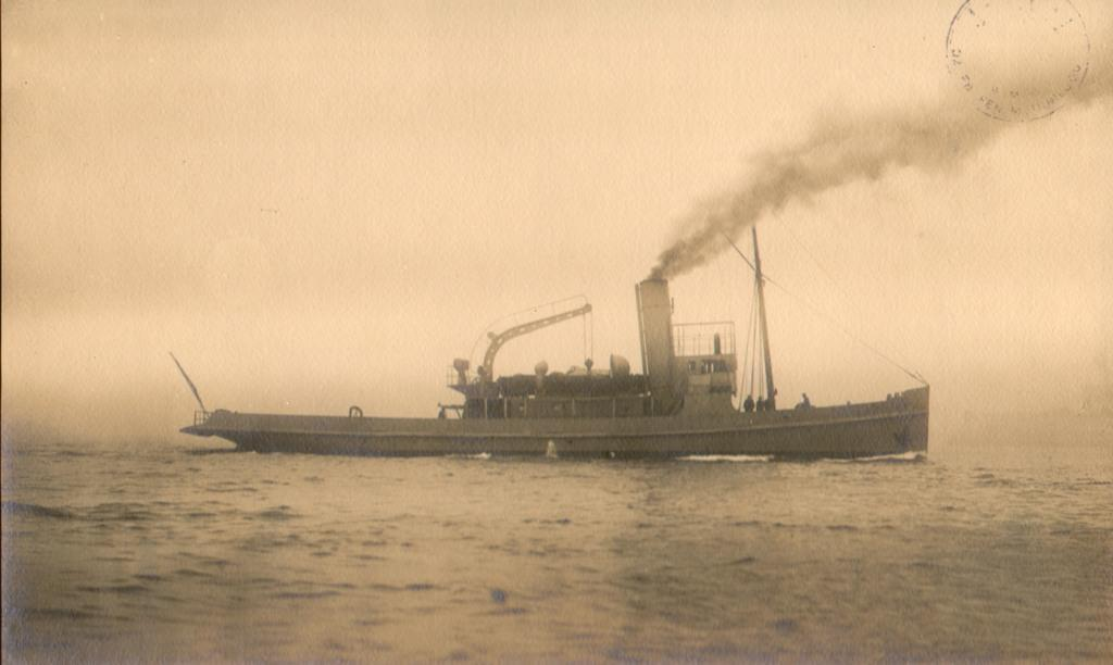 Ottoman minelayer Nusret with postmark